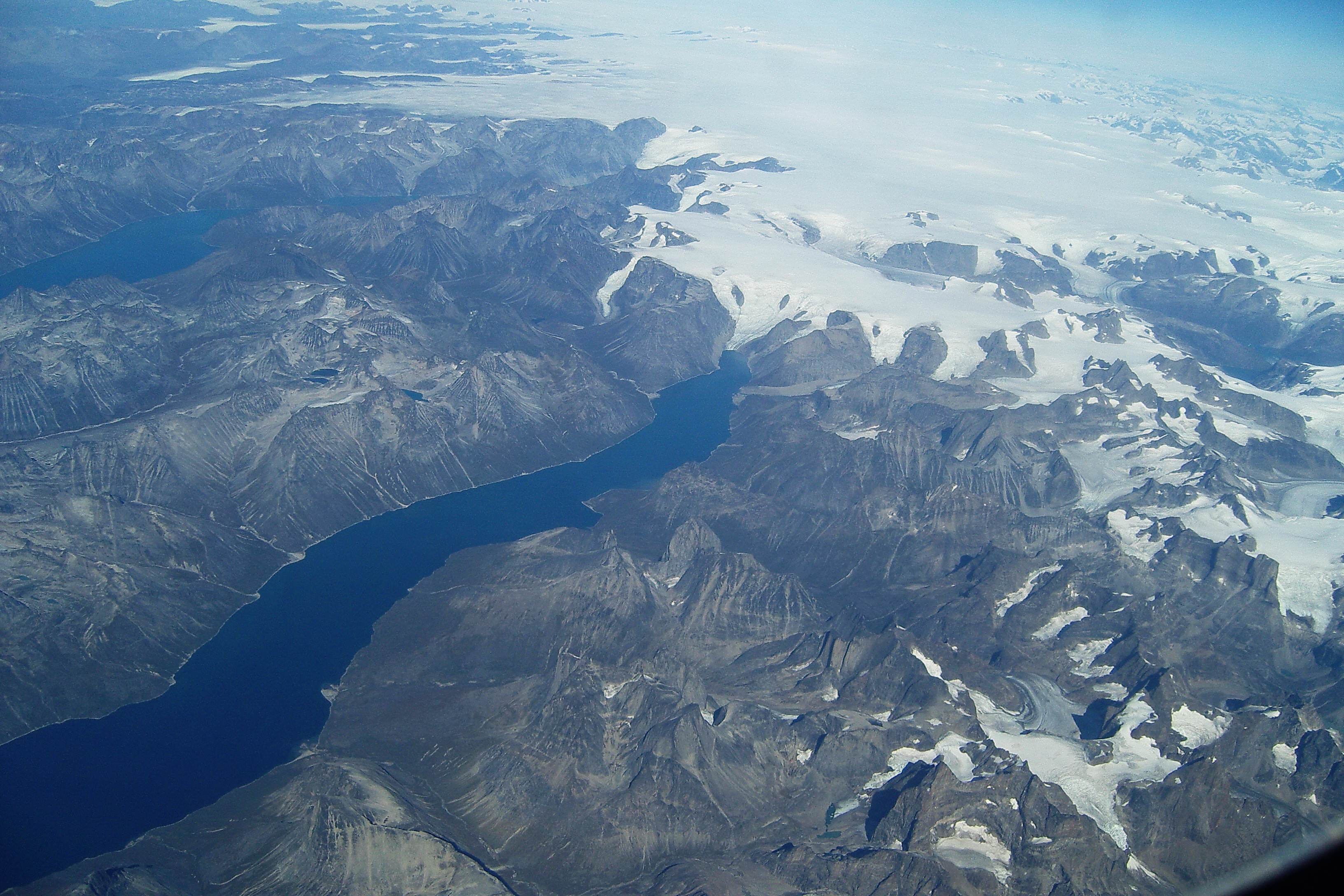 South coast of Greenland, seen from an aeroplane